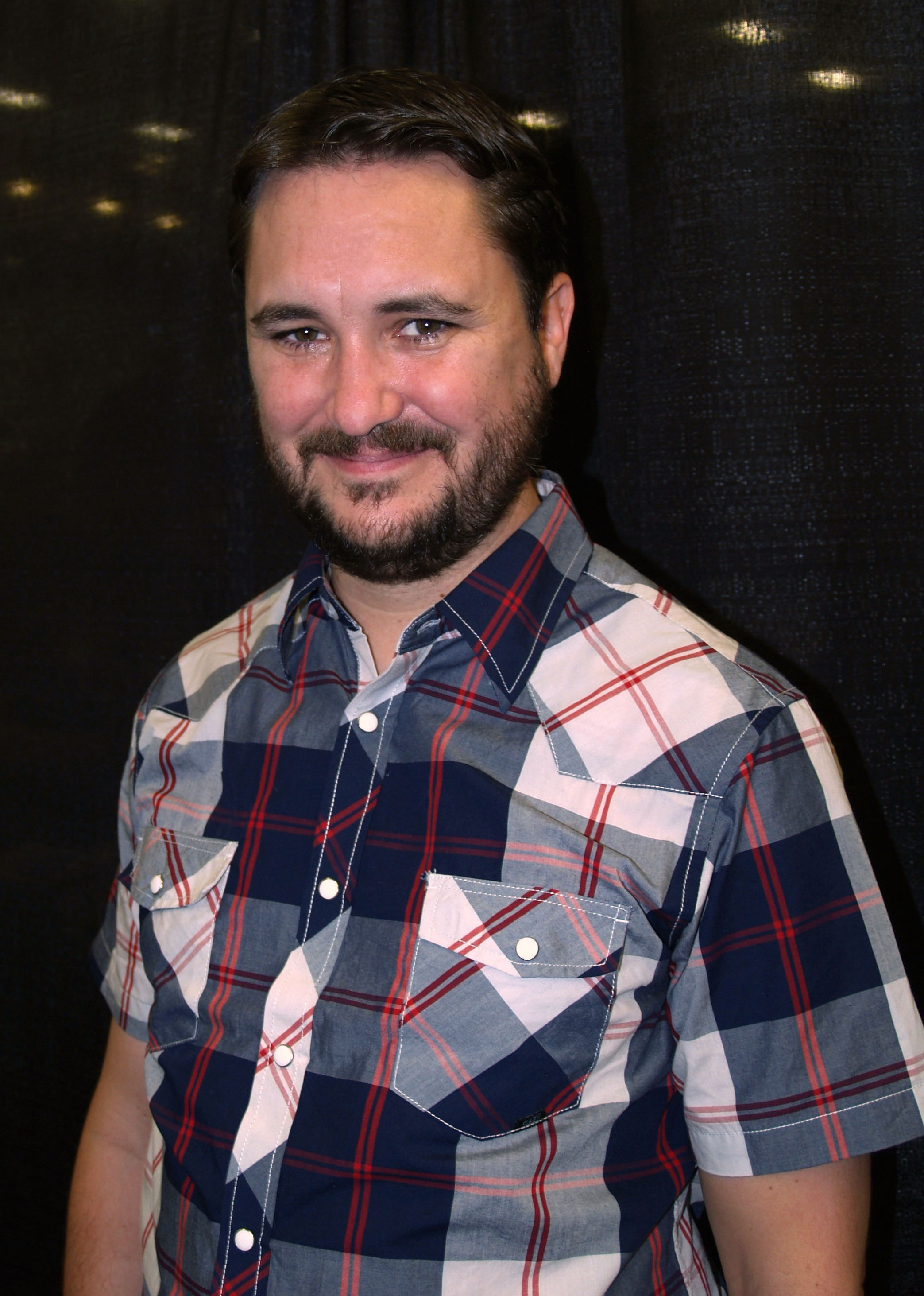 Actor Wil Wheaton at the 2013 Wizard World New York Experience Comic Con in Manhattan. This photo was created by Luigi Novi. It is not in the public domain, and use of this file outside of the licensing terms is a copyright violation.